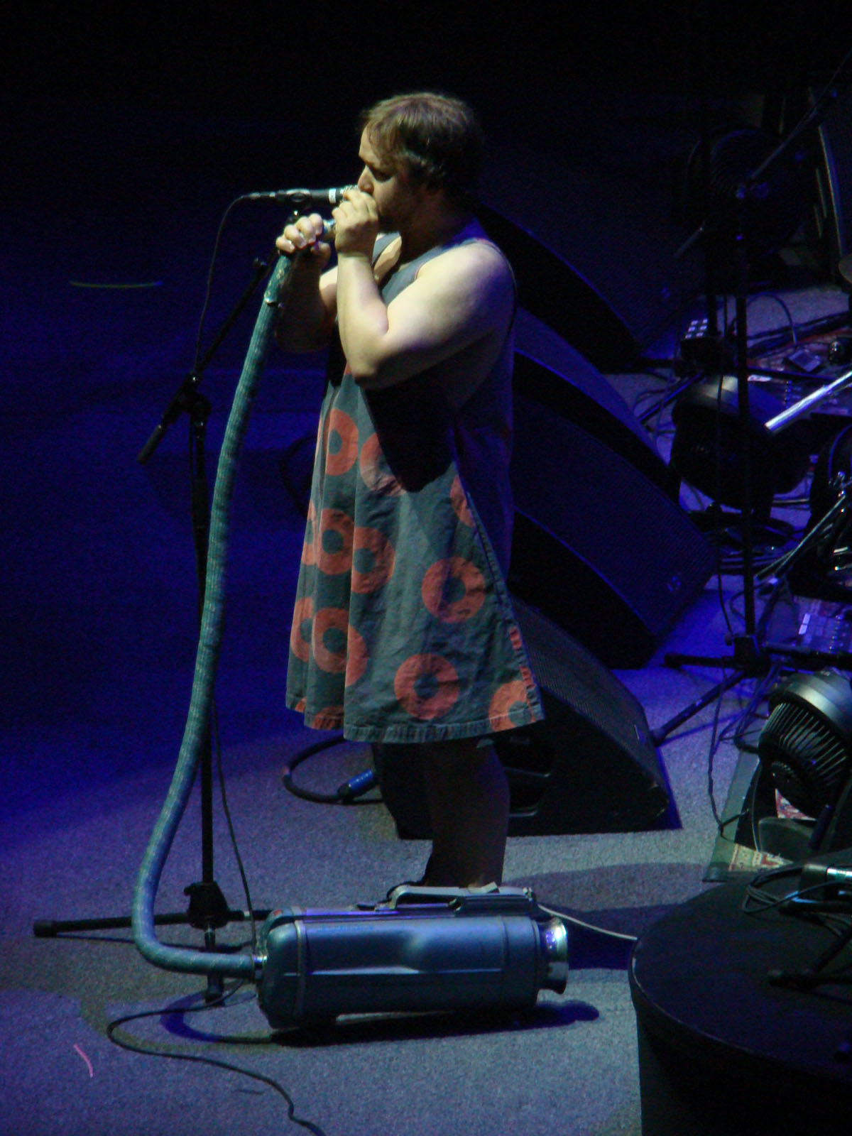 Phish performing "I Didn't Know" on December 28, 2009 at the American Airlines Arena in Miami Florida. New Years Run. Jon Fishman's final vacuum solo for the decade.